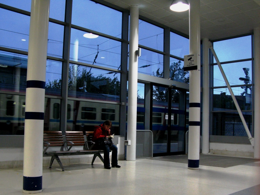 Inside the eastbound waiting room on the high level platforms at Partick station in Glasgow.